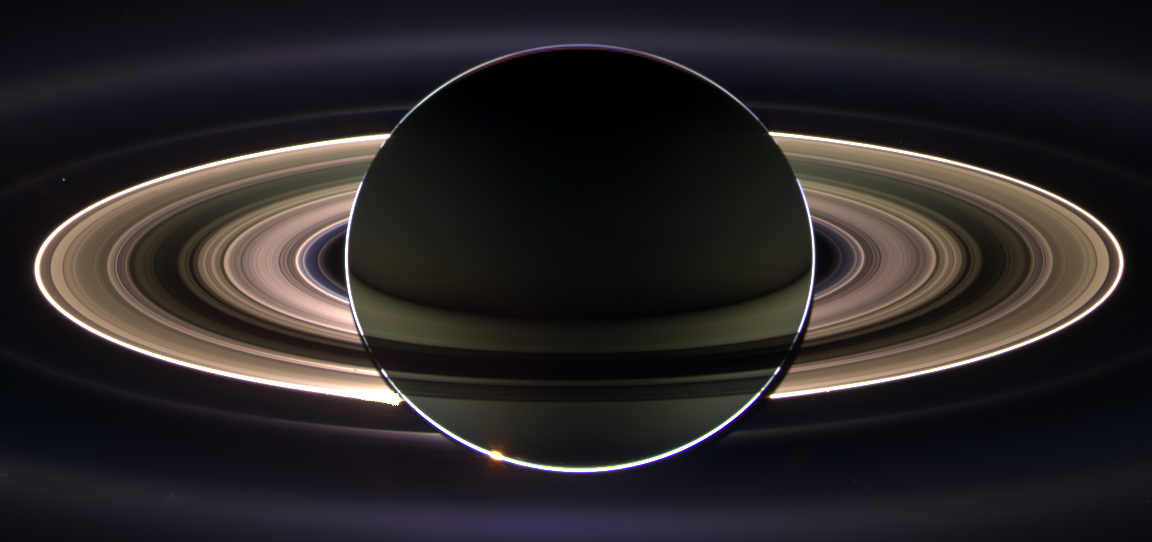 Saturn eclipsing the sun, seen from behind from the Cassini orbiter. The image is a composite assembled from images taken by the Cassini spacecraft on 15 September, 2006. Individual rings seen include (in order, starting from most distant) * E ring * Pallene ring (visible very faintly in an arc just below Saturn) * G ring * Janus/Epimetheus ring (faint) * F ring (narrow brightest feature) * Main rings (A,B,C) * D ring (bluish, nearest Saturn) At full resolution, the distant Earth is visible as a dot above the left extremity of the main set of rings. Ring portion in front of Saturn almost matches Saturn's shadow so they receive virtually no light, showing the amount of visible light is blocked by the rings when viewed against Saturn. On Saturn, ringshine can be seen. The upper half of Saturn receives less light from ringshine than the lower half while the equator and poles receive the least light. For a detailed description, and